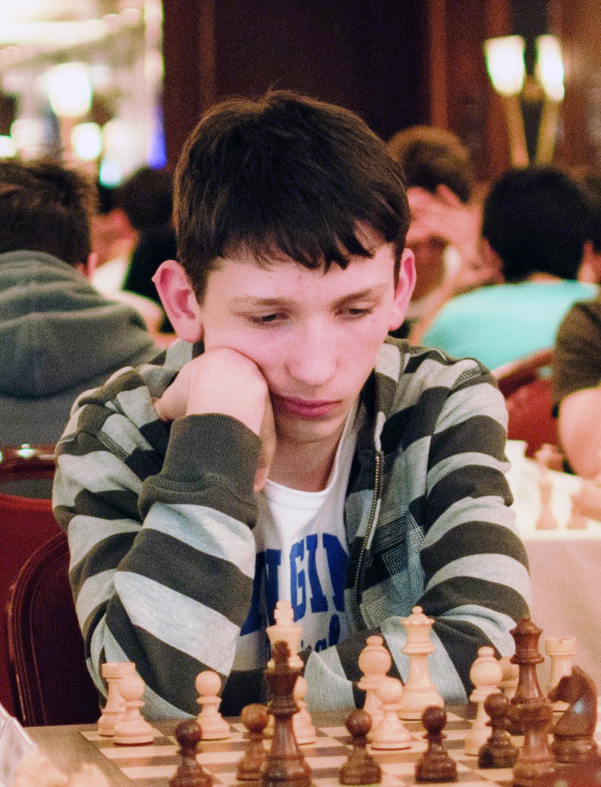 IM Oparin Grigoriy, WChJ Athens 2012